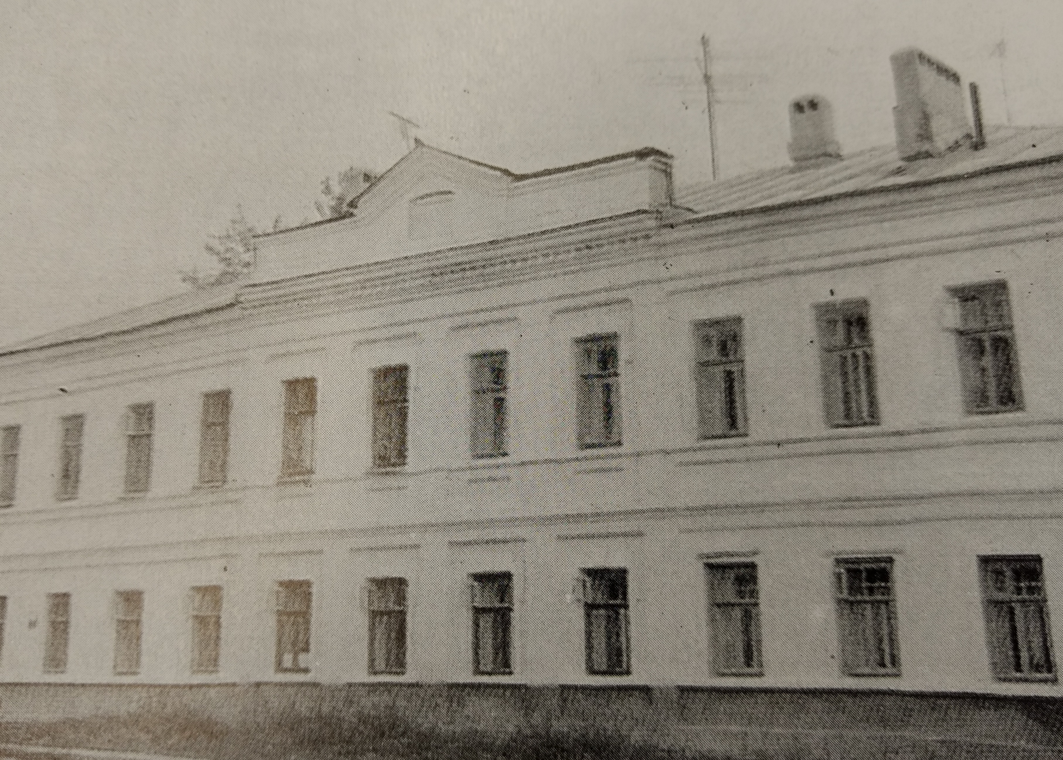 Photo of the Marjani Madrasha in Kazan